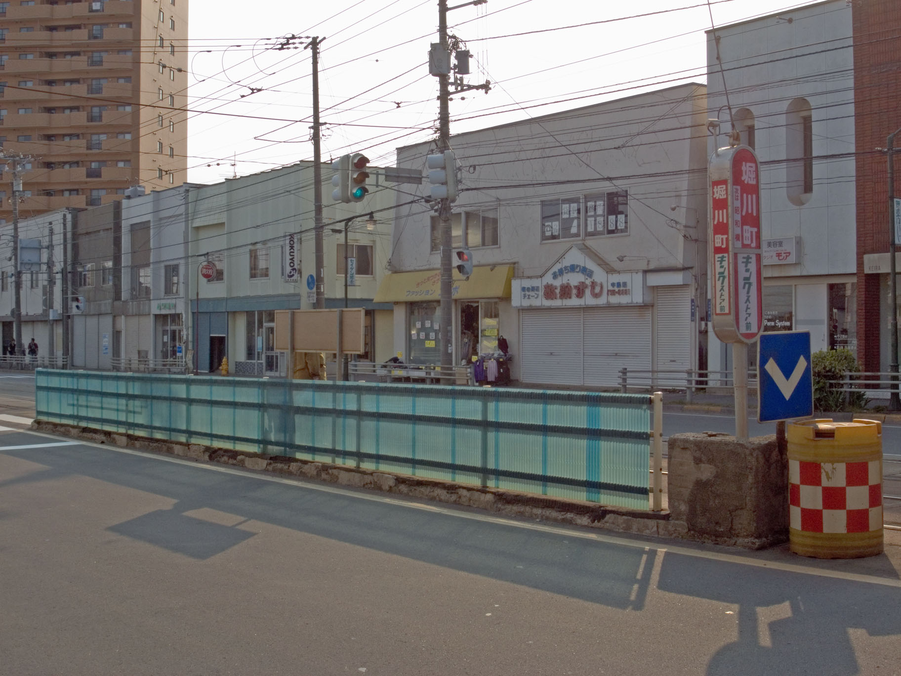 Horikawacho station in Hakodate tram, Hokkaido, Japan